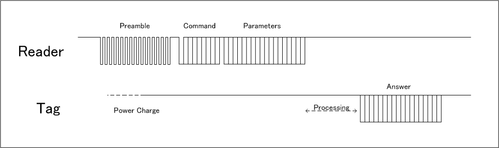 An outline sequence for RF-tag communication.